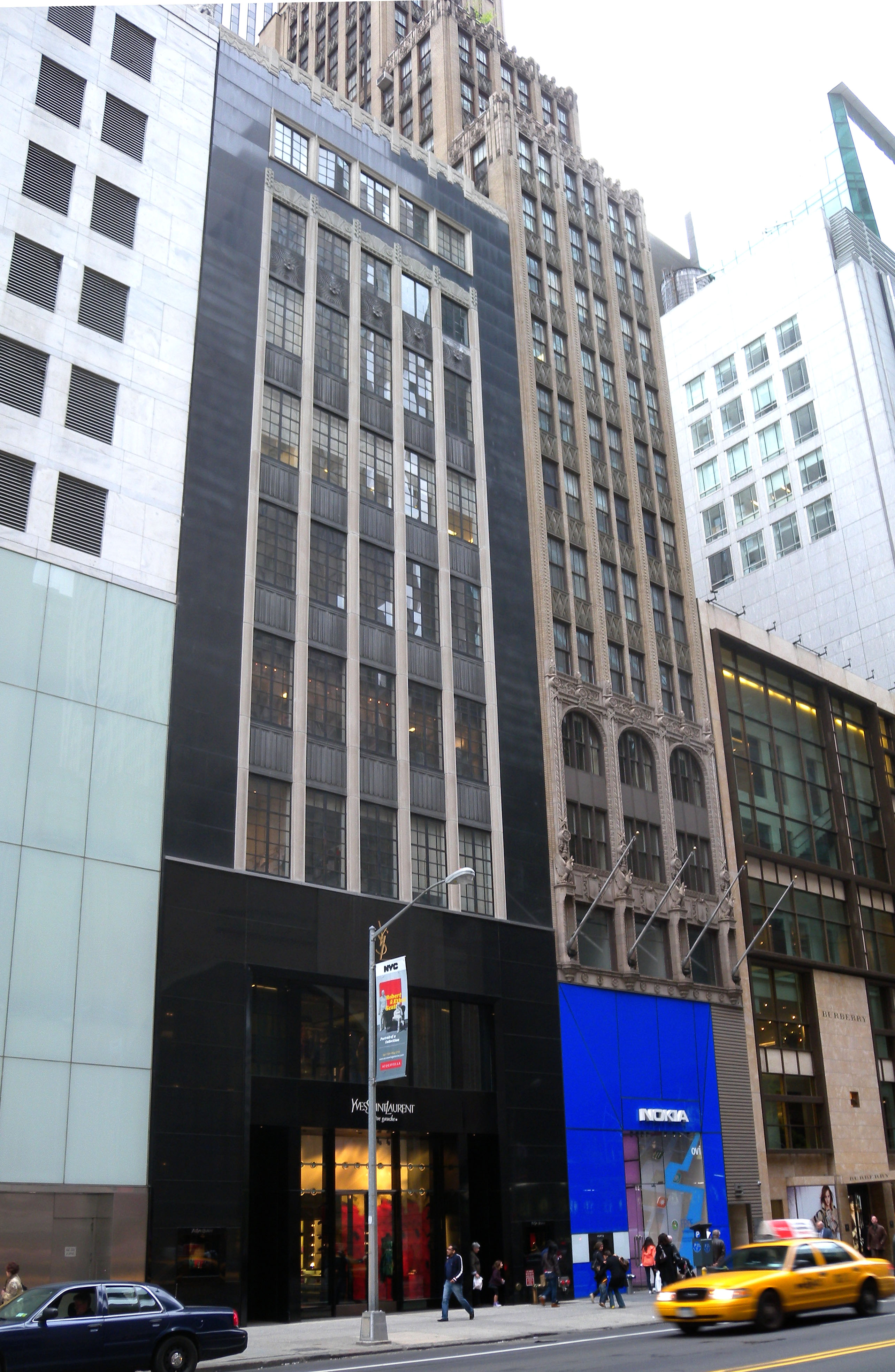 Looking northeast across 57th at L.P. Hollander Company Building (black, with YSL storefront) on a cloudy afternoon. Nokia storefront (blue) is 5 E 57th St.